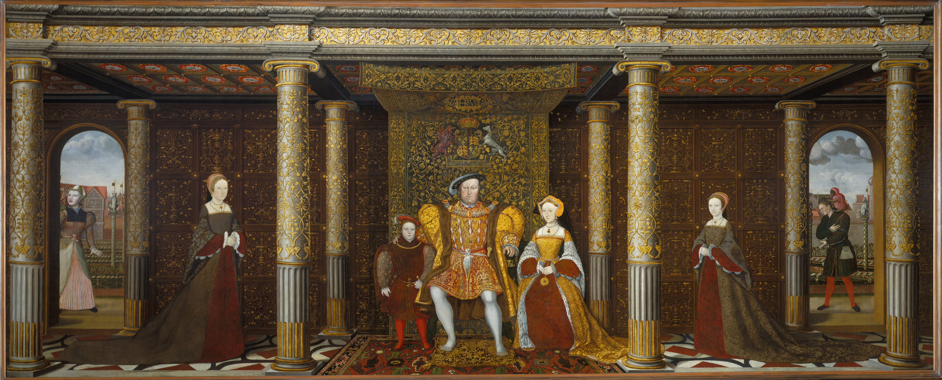 Left to Right: 'Mother Jak', Lady Mary, Prince Edward, Henry VIII, Jane Seymour(posthumous), Lady Elizabeth and Will Somers